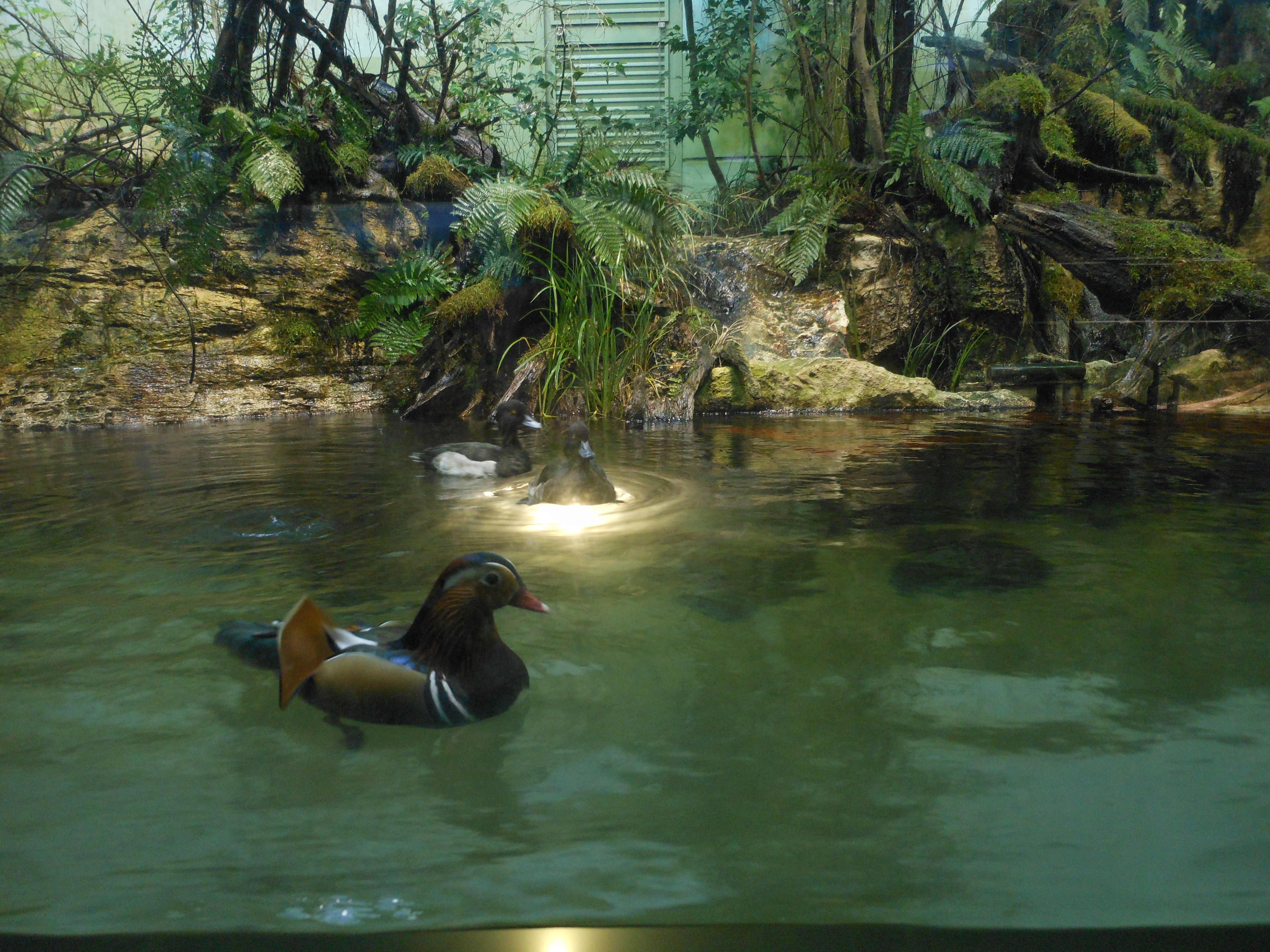 This is an aqua terrarium in Toba Aquarium in Toba, Mie, Japan. This aqua terrarium is in the corner J "Japanese River".